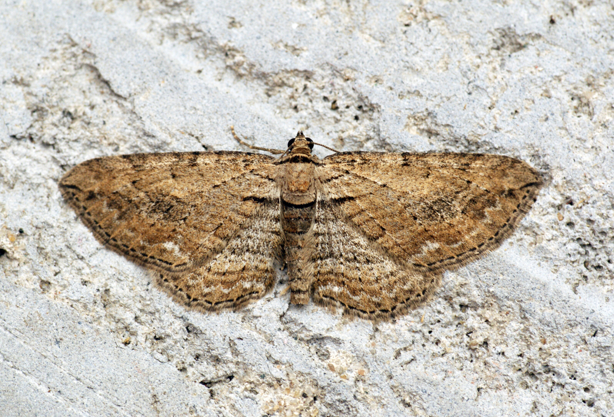 [1782] The Fern (Horisme tersata)